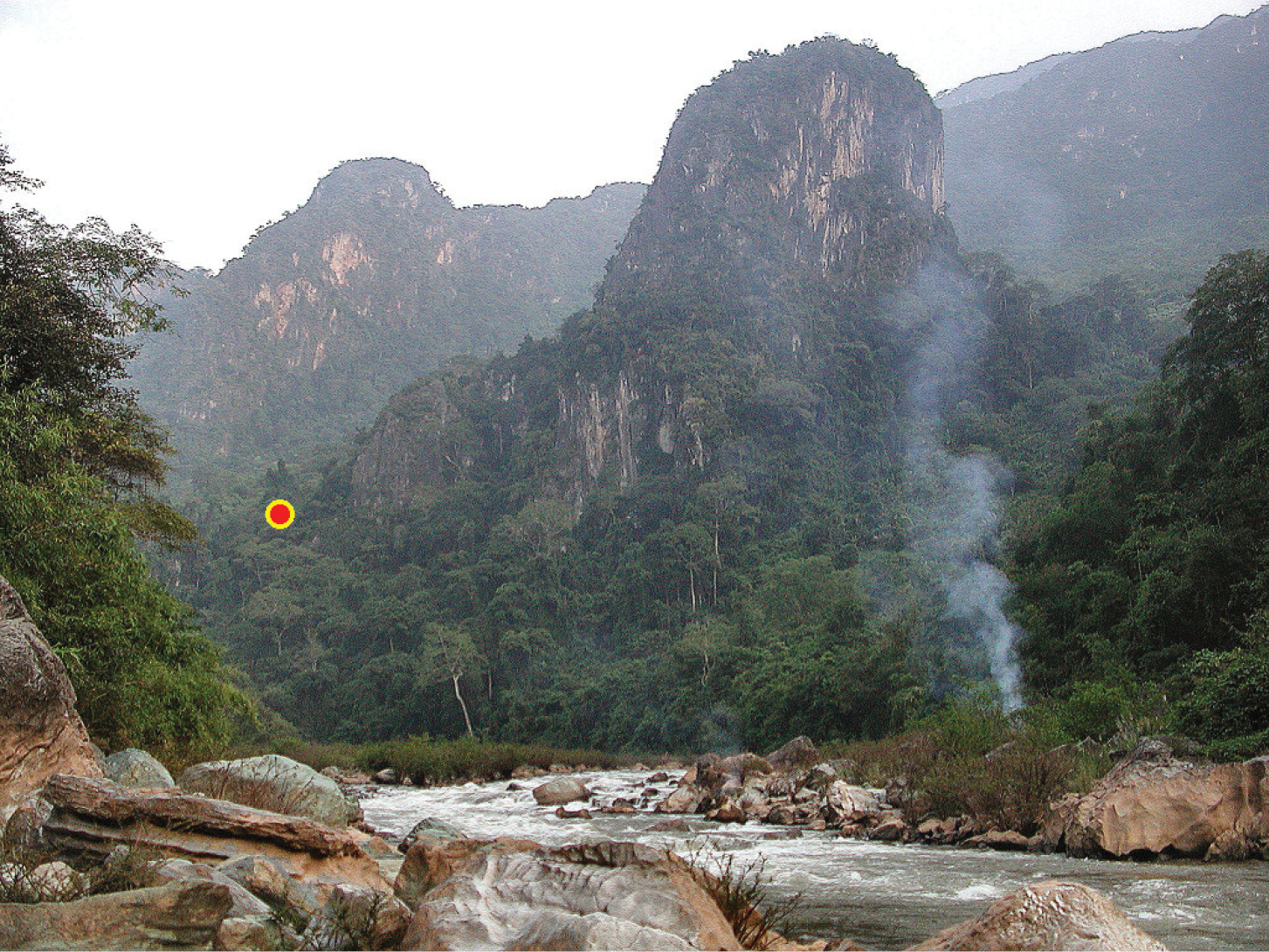 Habitat of Gudeodiscus messageri raheemi in Luang Prabang Province in Laos. The left side of Nam Khan ca. 18 km SE of Muang Xiang Ngeun. The red dot indicates the approximate place where the specimens were collected.